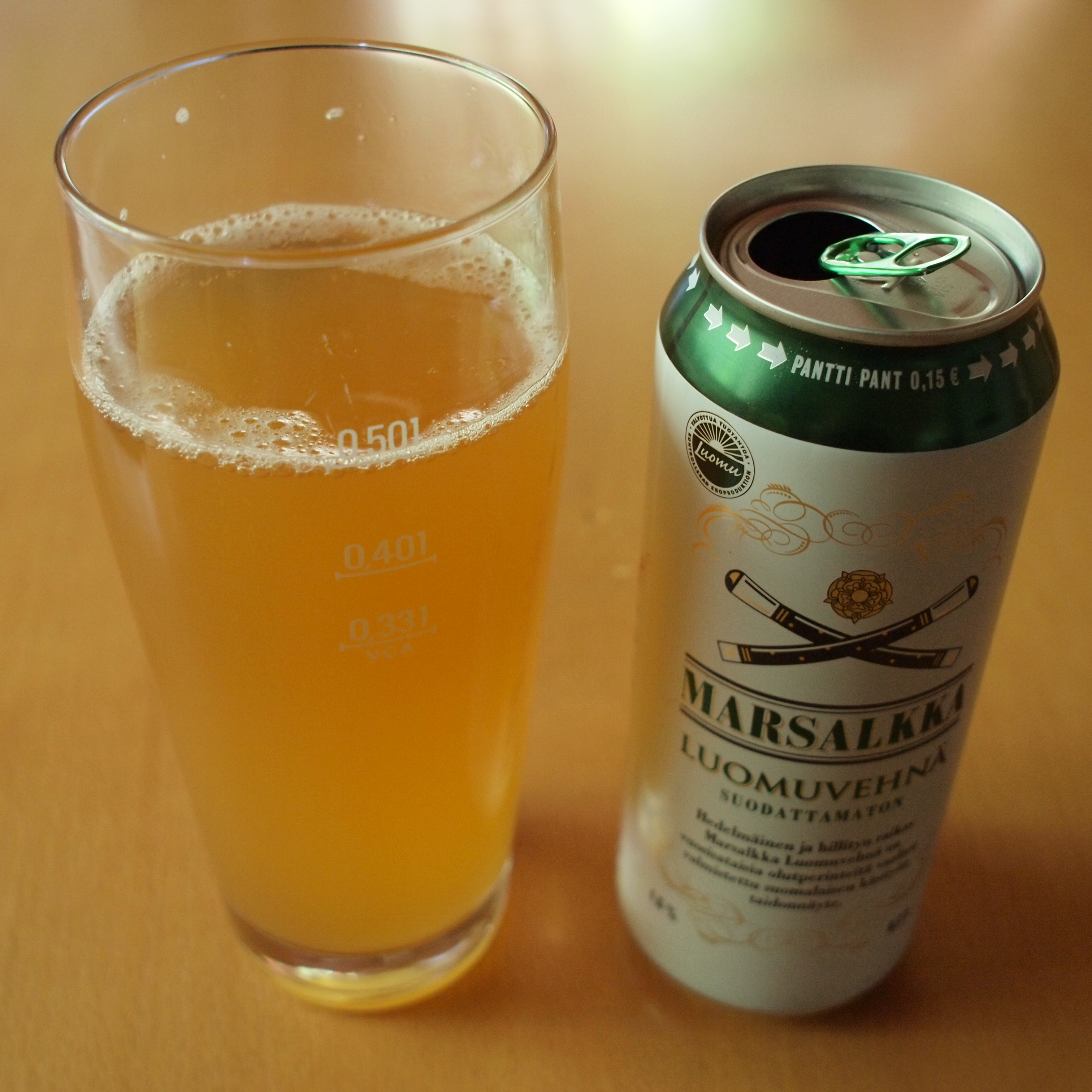 0,5-liter pint of Marsalkka Luomuvehnä wheat beer by Saimaan Juomatehdas. 'Marsalkka' is Finnish for 'Marshall', and 'Luomuvehnä' translates to 'organic wheat'.